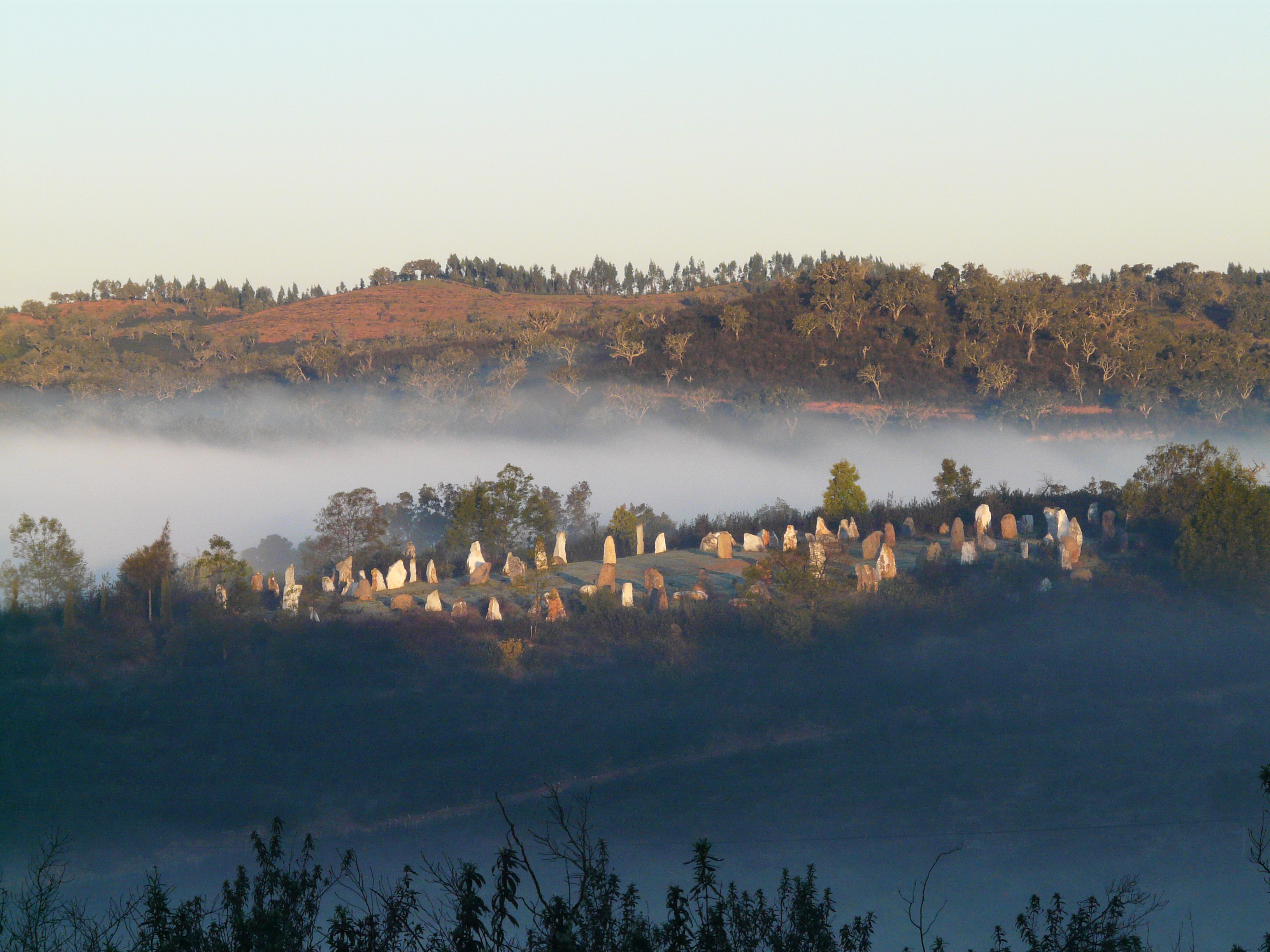 Stonecircle in Tamera